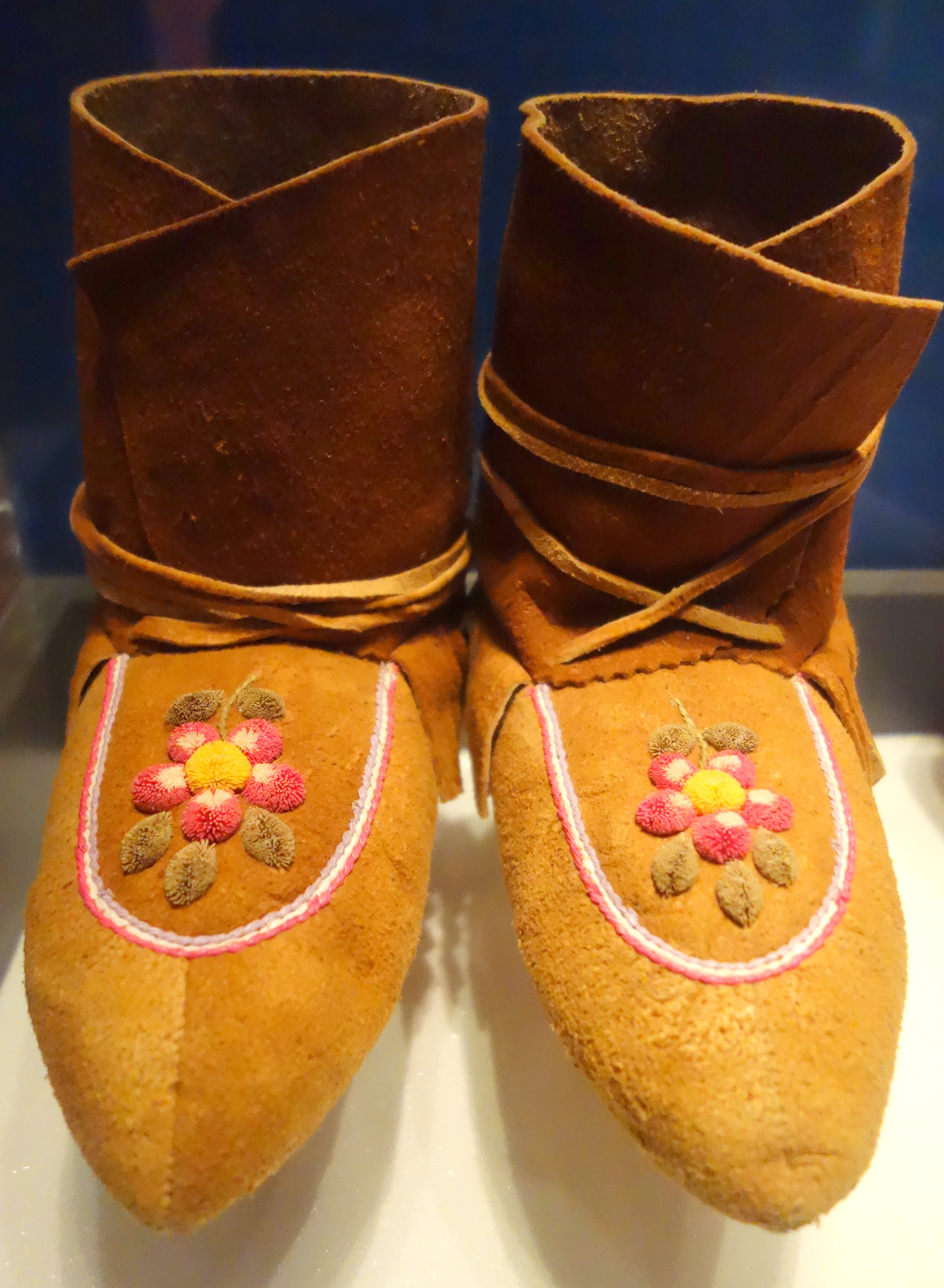 Exhibit in the Bata Shoe Museum, Toronto, Ontario, Canada. The museum permitted photography without restriction.